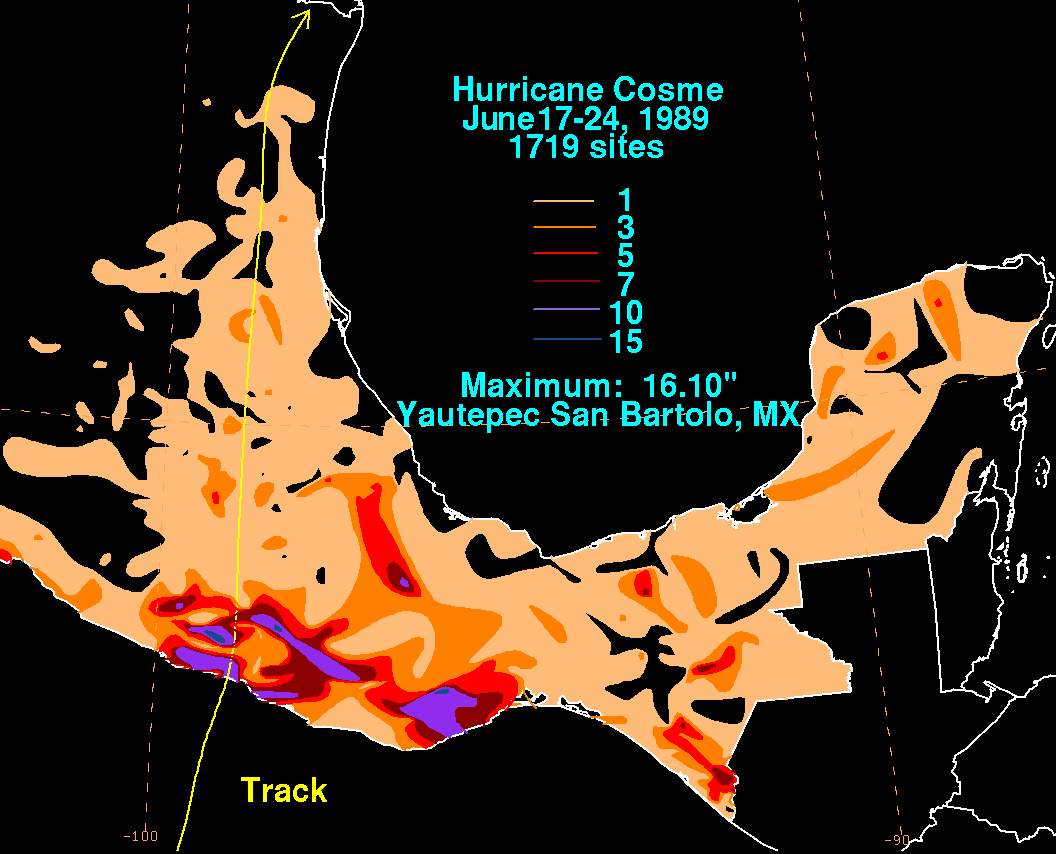 Storm total rainfall map of Hurricane Cosme during June 1989.